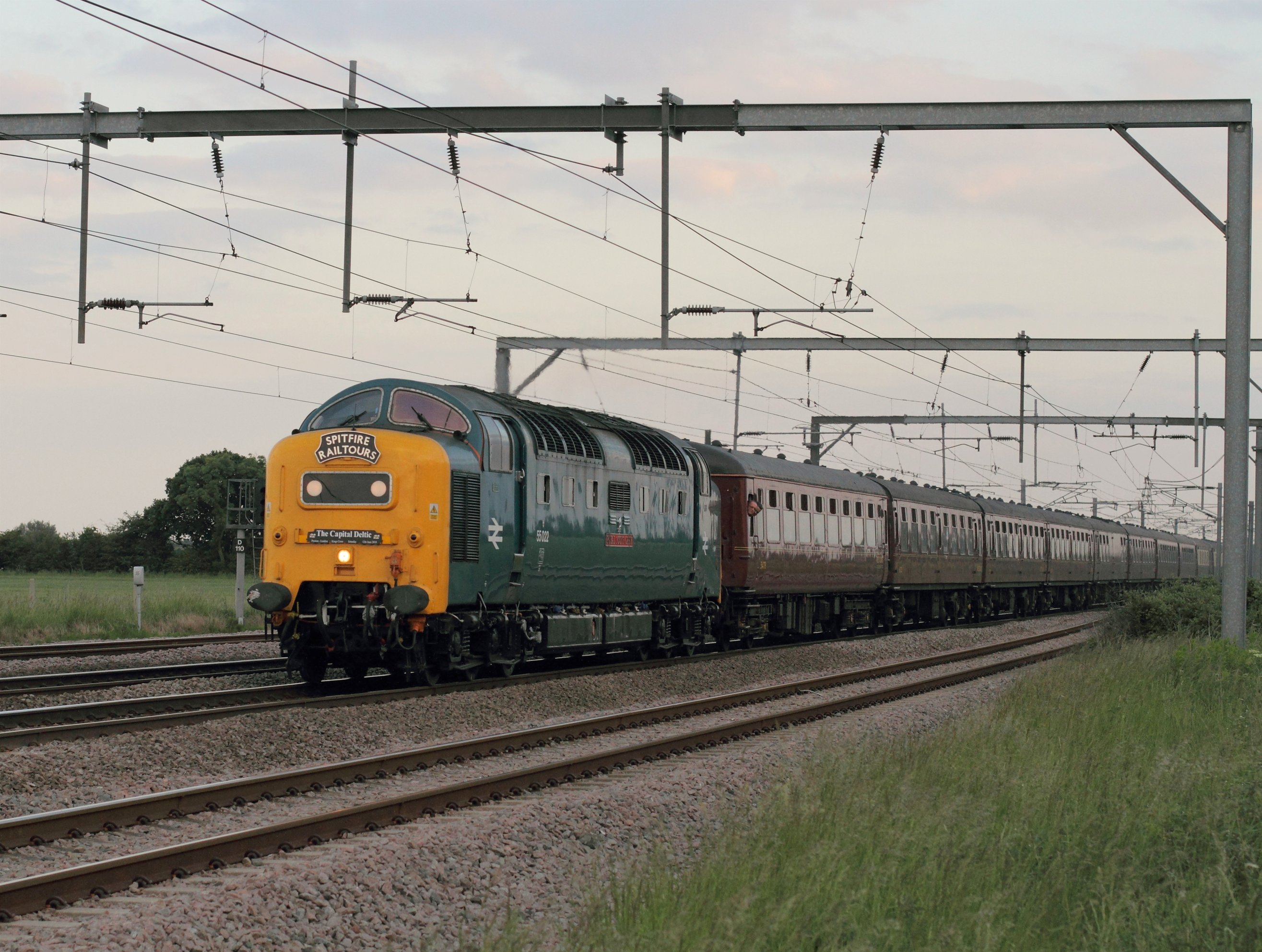 55022 passes Carlton on Trent working 1Z56 Oxford - Preston return charter. Running about 20 late and playing the Napier Concerto